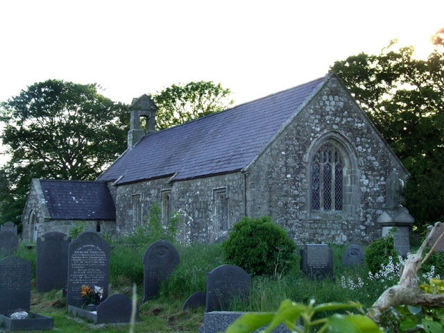 Llanddyfnan Church. The small Llanddyfnan church situated between Talwrn and Pentraeth